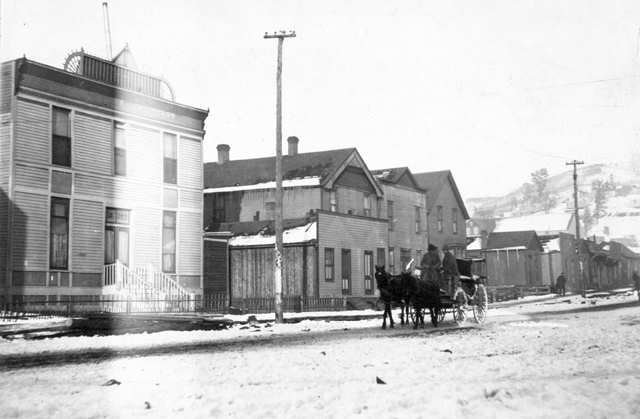 “The Row, Cripple Creek,” Photo by H.S. Poley, 1893-1896, U.S. West Photo Collection, American Memory, Library of Congress Website.